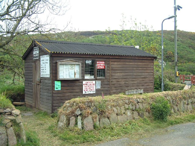 Harbour Master's Office, Porthclais. This wooden hut is located at the head of the creek. Porthclais was at one time the port for St David's.